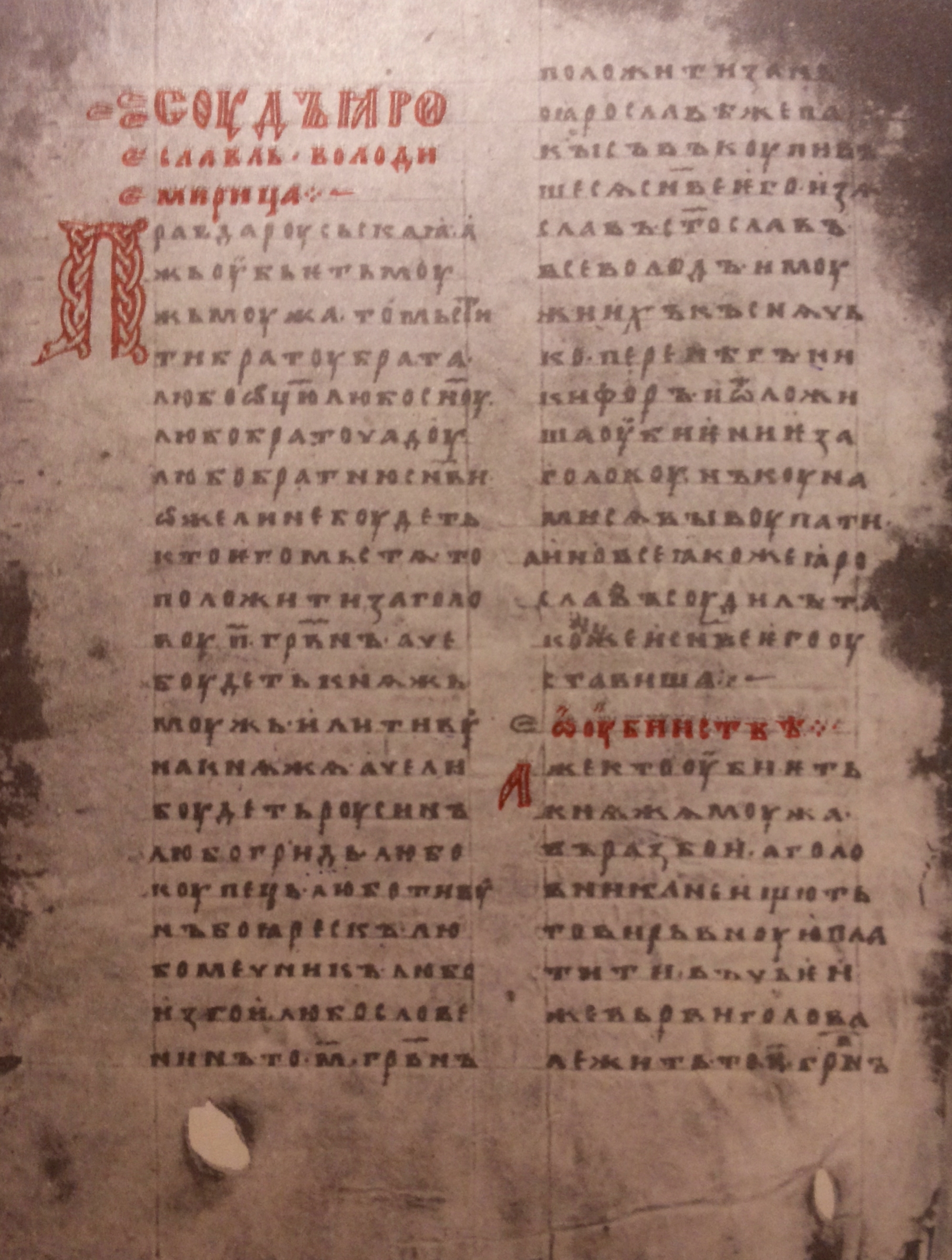 There is a facsimile reproduction of the instance Sinodal`niy of Pravda Ruskaya, page 1